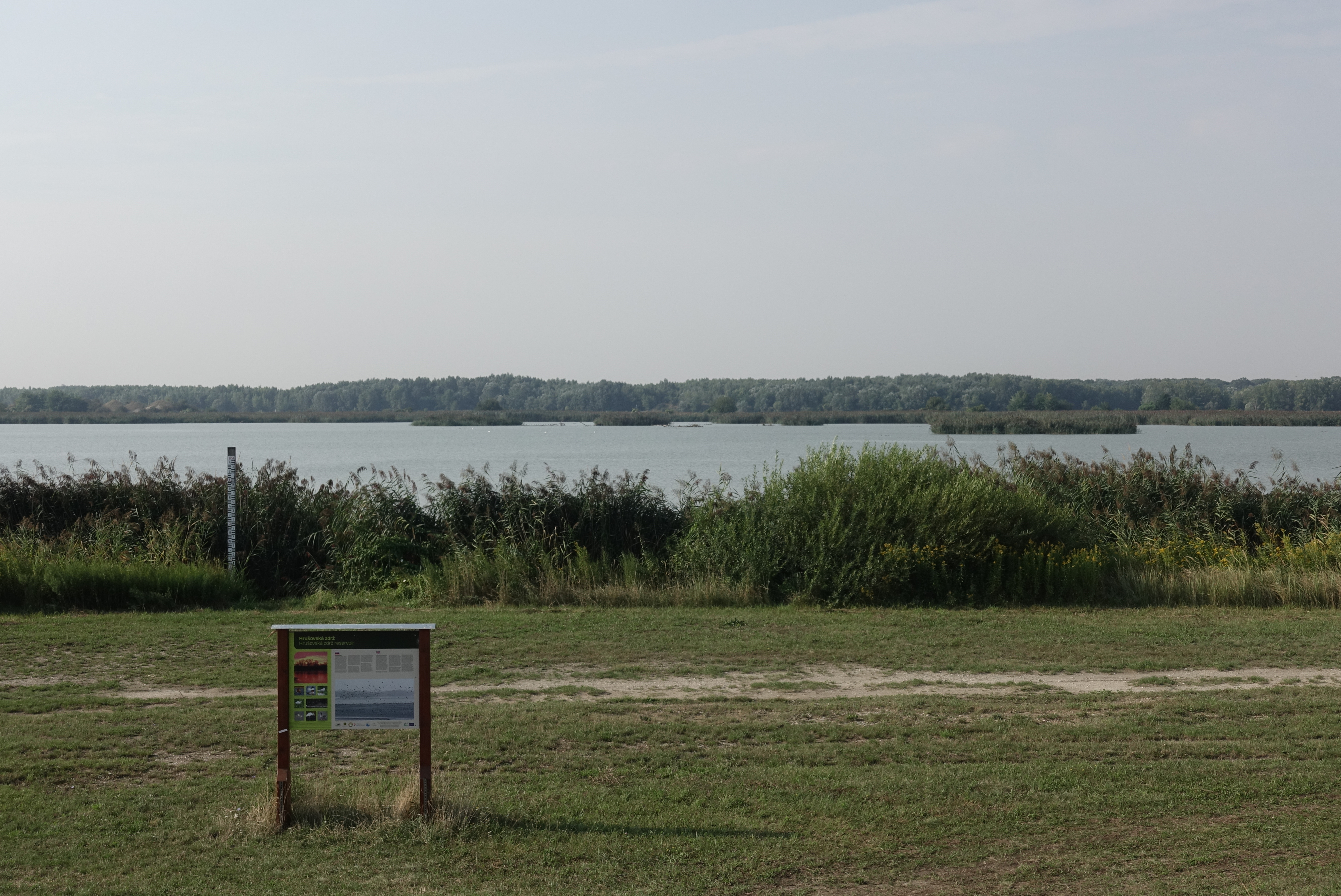 Northern part of Hrušov reservoir belongs to Special Areas of Conservation.